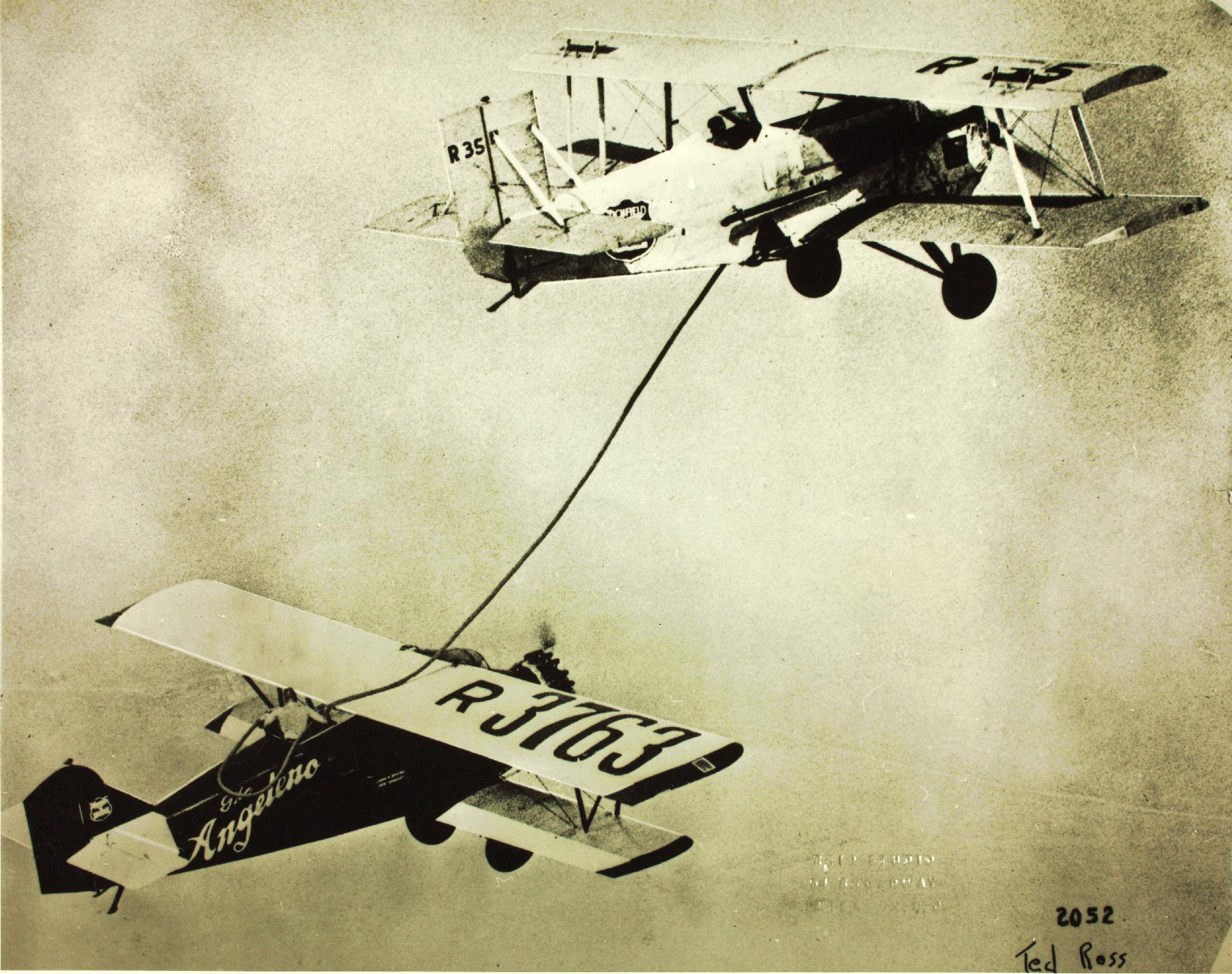 Catalog #: 10_0014998 Title: Historic Flight Date: 1950 Additional Information: The Angeleno Buhl Airsedan Refueling Tags: Historic Flight, The Angeleno Buhl Airsedan Refueling, 1950 Repository: San Diego Air and Space Museum Archive